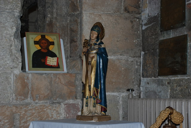 Cerflun Deiniol Sant Cadeirlan Bangor Cathedral Statue of St Deiniol A statue of Deiniol, founder of the monastic site at Bangor. In his right hand he carries a cross, in his left hand a boat, a symbol of a missionary.